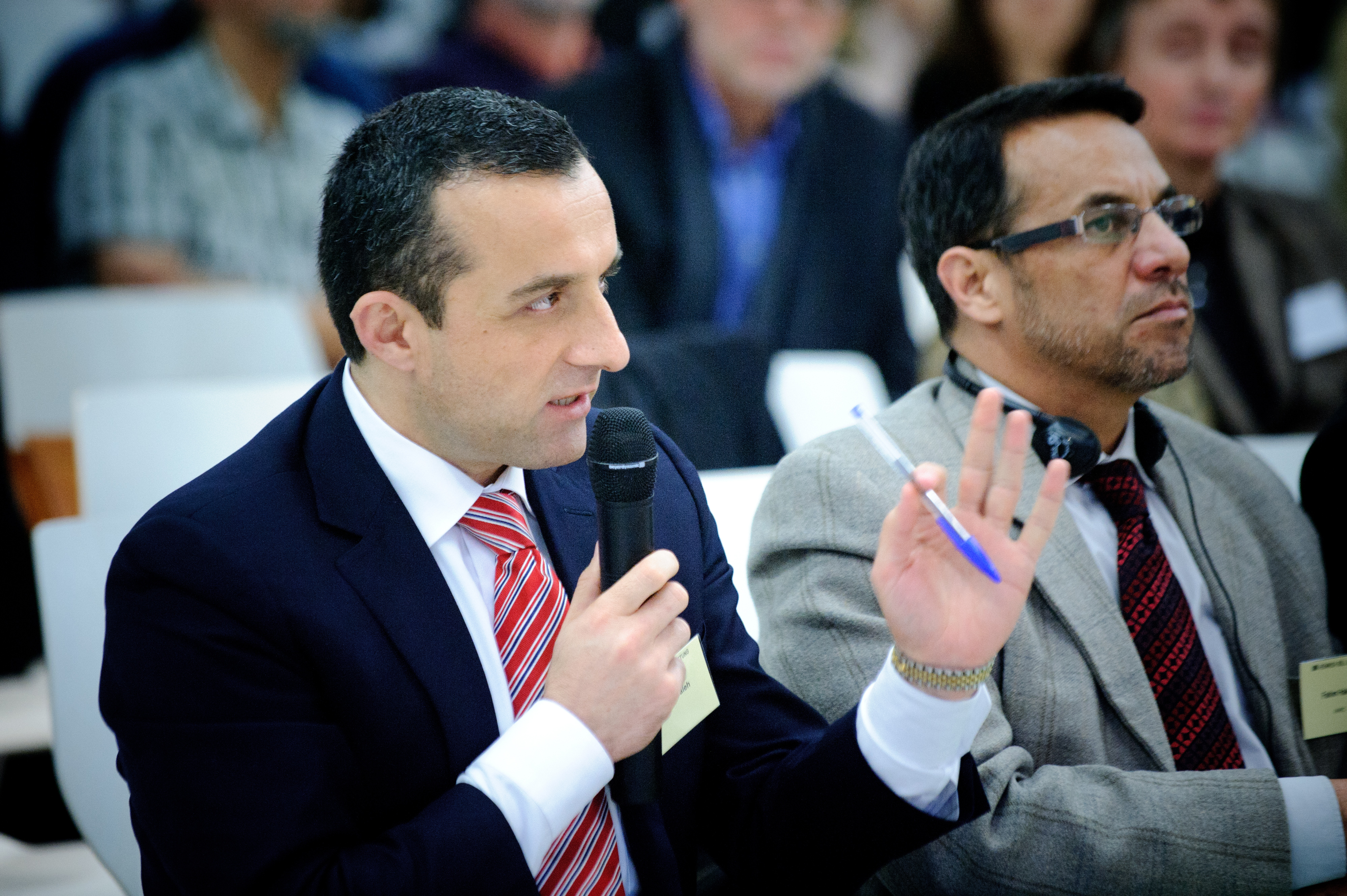 Amrullah Saleh speaking at an international conference in Berlin (2011)